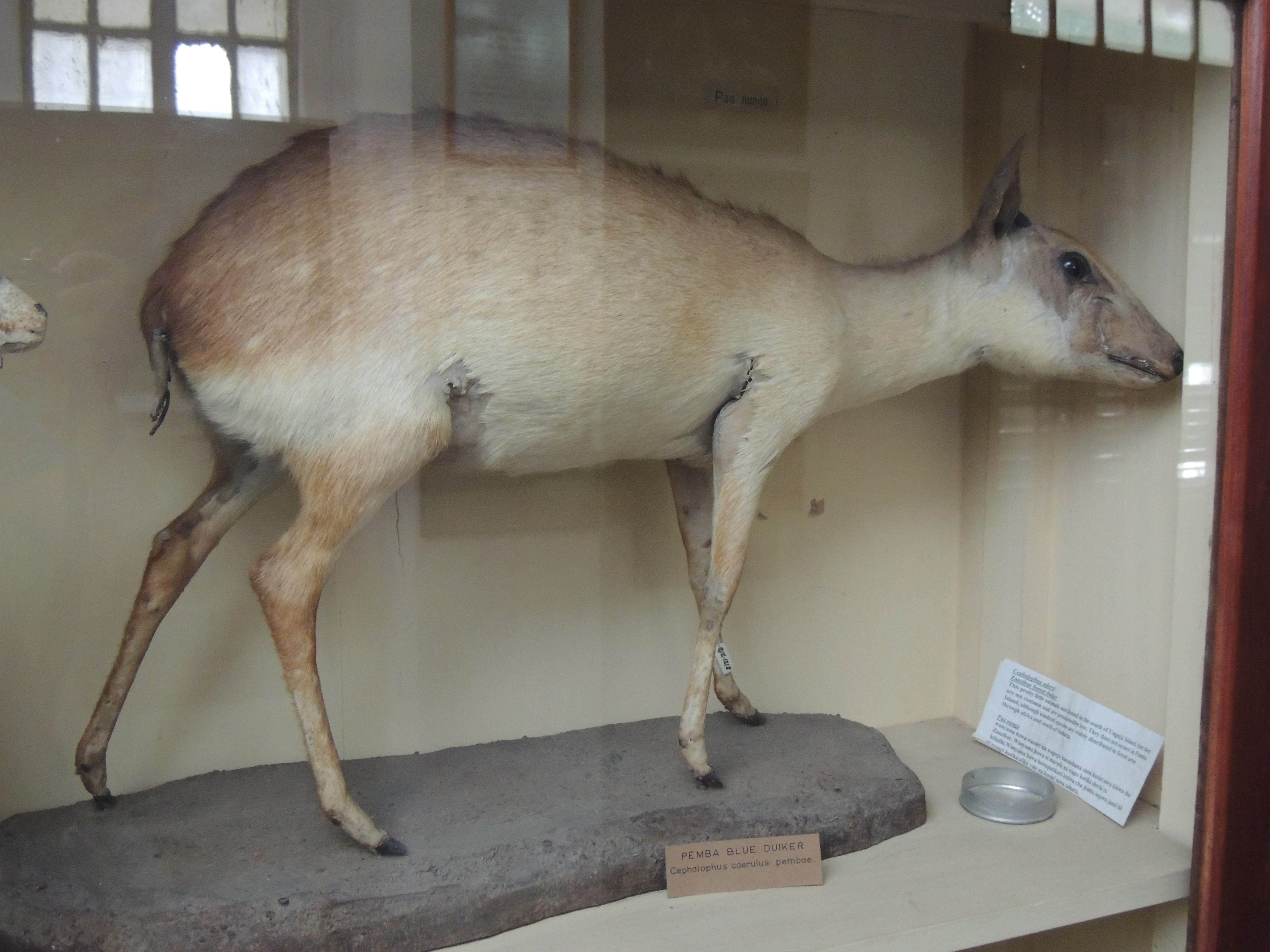 Pemba Blue Duiker (Cephalophus caerulus pembae) in Zanzibar Natural History Museum in Zanzibar City (or Zanzibar Town), Zanzibar (Tanzania).